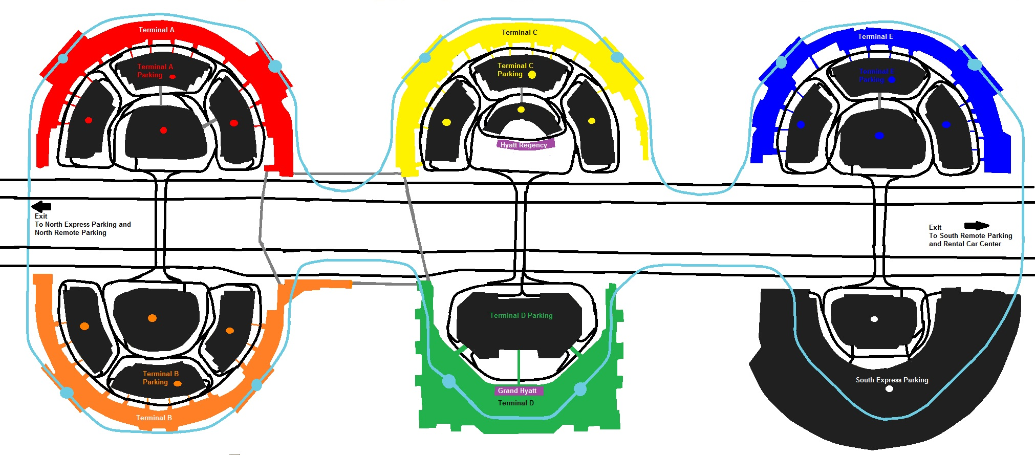 A simple terminal map of Dallas Fort Worth Airport. Created by me with help from Google Earth and the Dallas Fort Worth Airport terminal map .